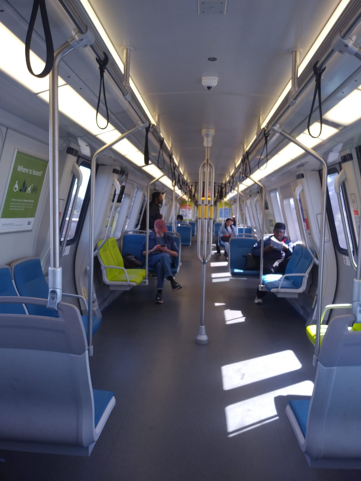 Interior of new BART car, daytime, with only a few passengers aboard, one on phone, another reading a newspaper, others in rear of car, aboveground